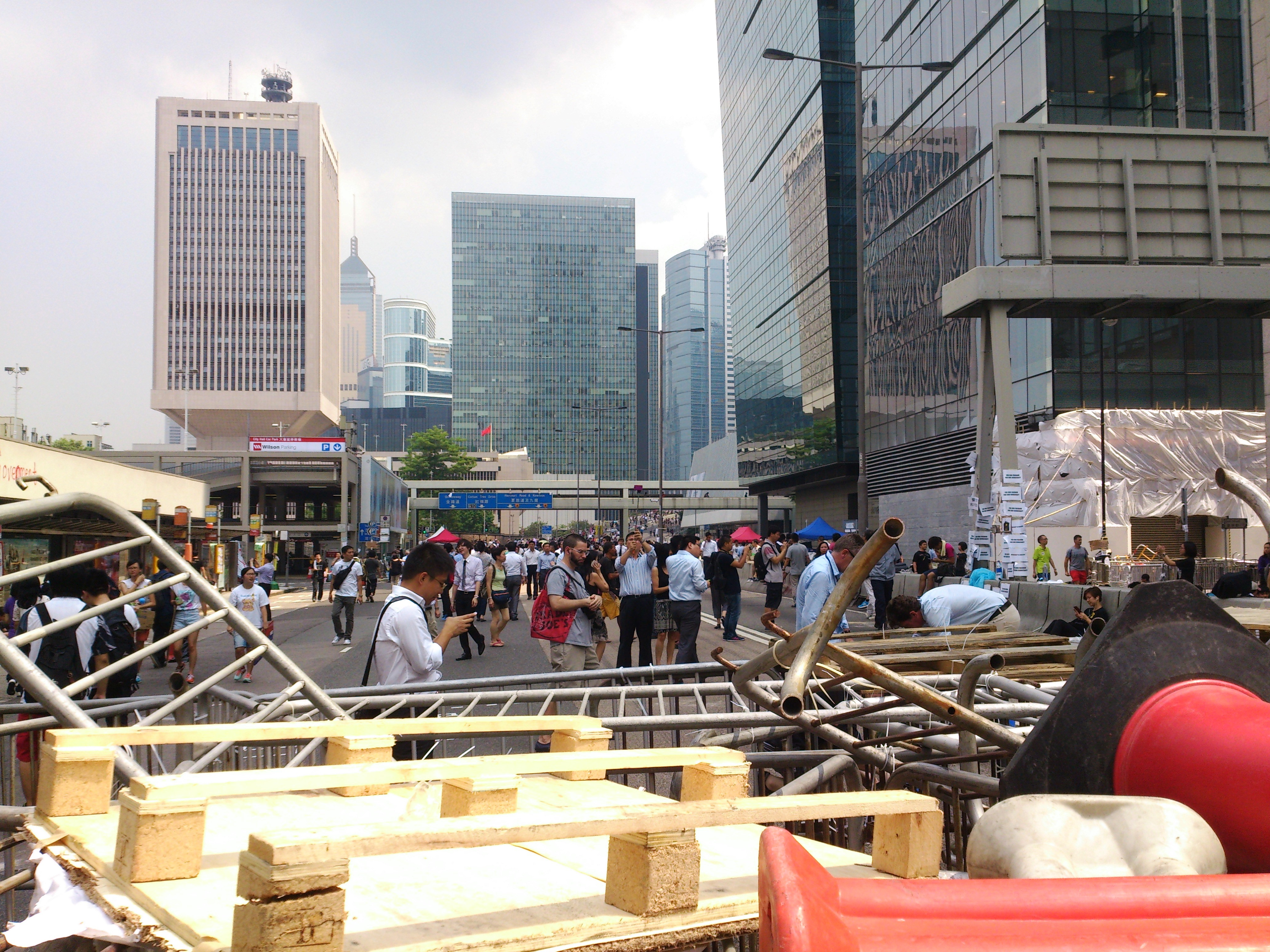 中文（香港）: Close view of Road block on Connaught Road Central near City Hall on 2014-09-30